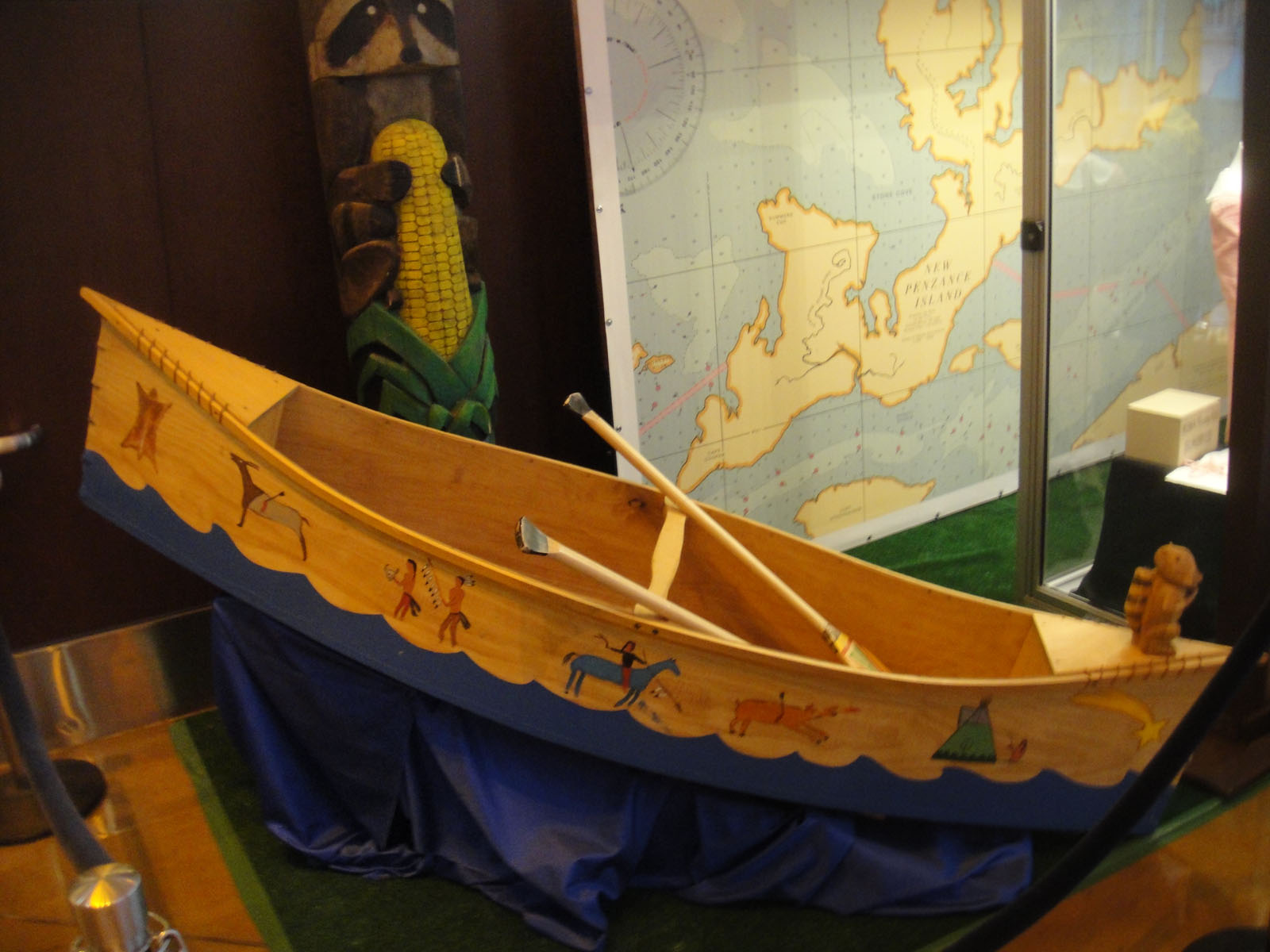 Moonrise Kingdom props at Arclight Hollywood.